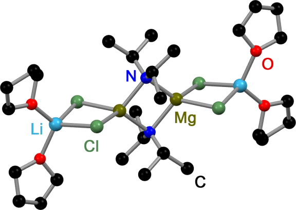 IPr-Turbo Hauser Base in the solid state